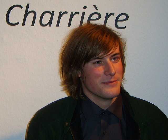 Julian Charrière, Ludwigshafen/Rhein, 2014